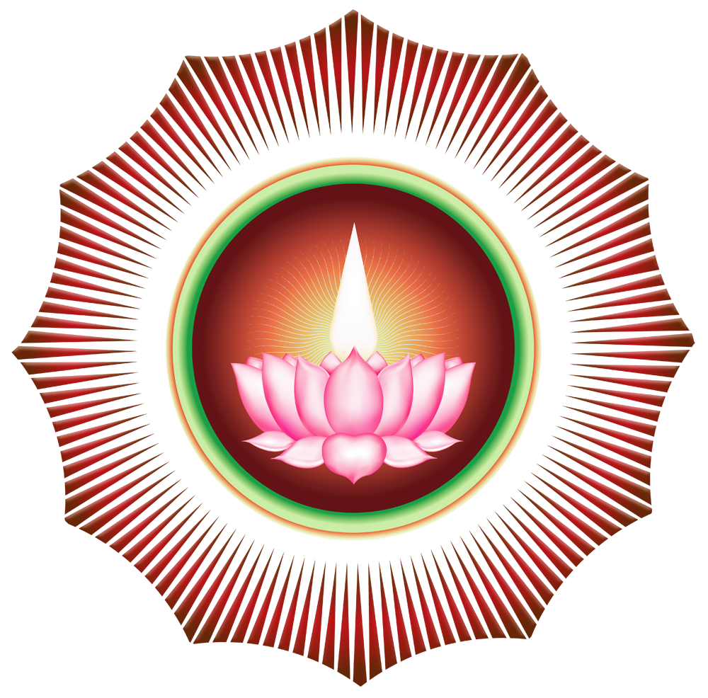 The symbol of Ayyavazhi